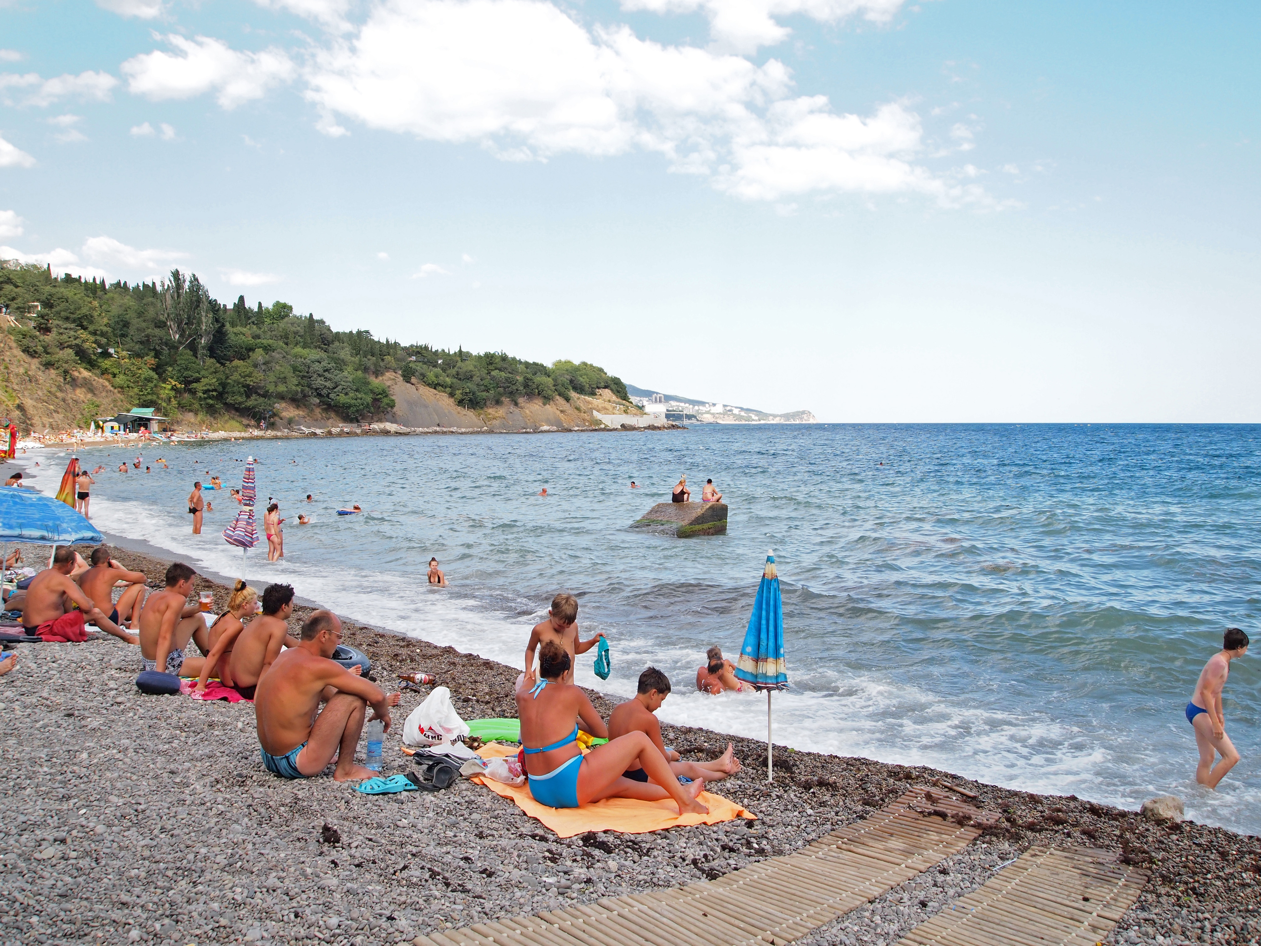 Beach in Alupka. This photograph was taken with a Olympus E-PL1.